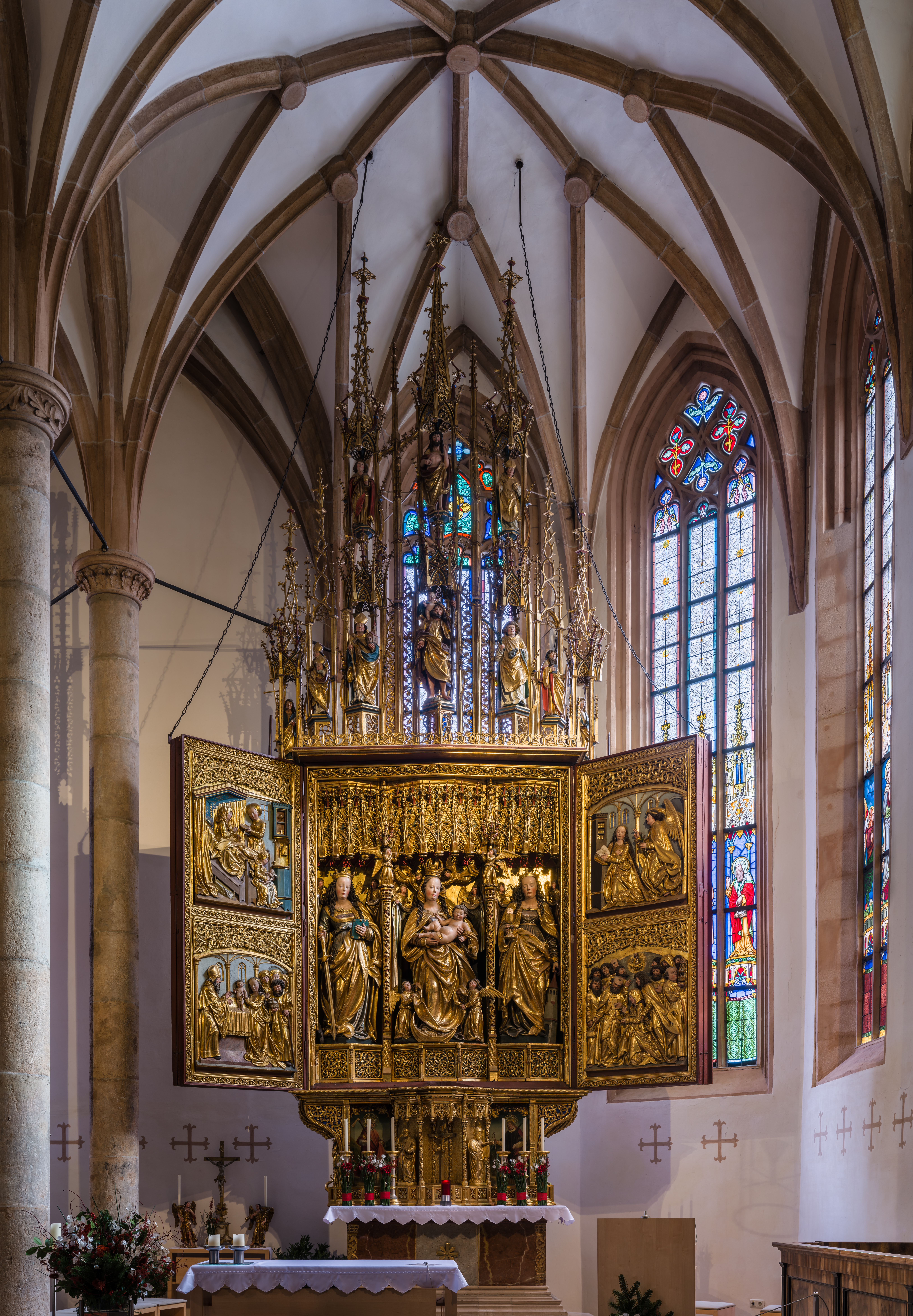 Altar of Our Lady at the Catholic parish church Hallstatt, Upper Austria. Lienhart Astl (signed), 1510–1520.